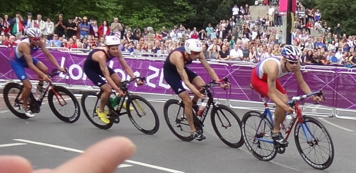 Richard Varga (Slovakia), Stuart Hayes (Great Britain), Jonathan Brownlee (Great Britain) and Ivan Vasiliev (Russia), Men's triathlon, 2012 Summer Olympics